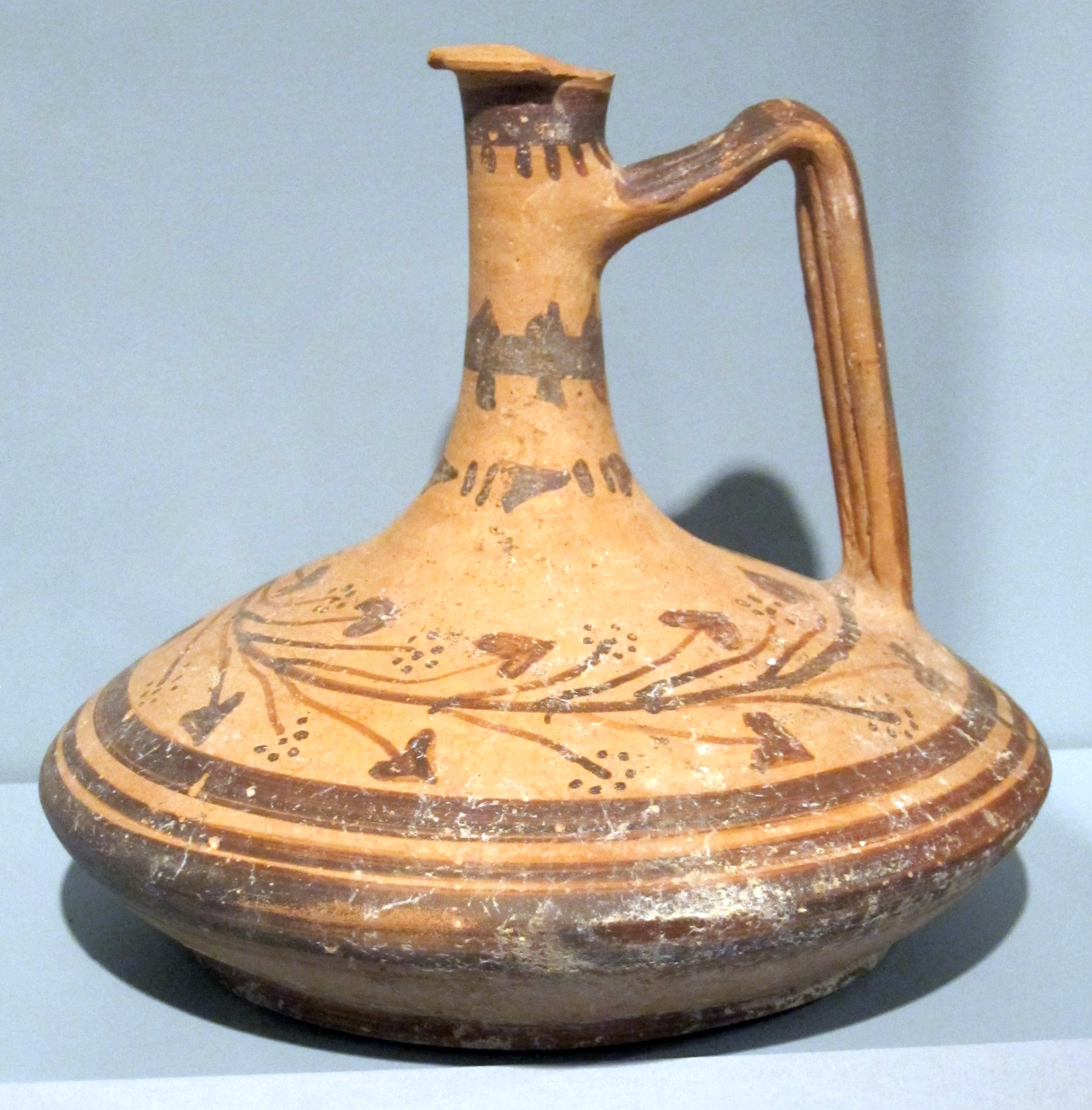 Terracotta Lagynos (pitcher), Cyprus/Hellenistic, 4th-3rd centuries BCE, Honolulu Academy of Arts